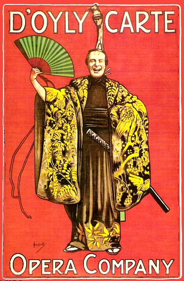 1919 D'Oyly Carte Opera Company publicity poster for The Mikado. Illustration by J. Hassal.